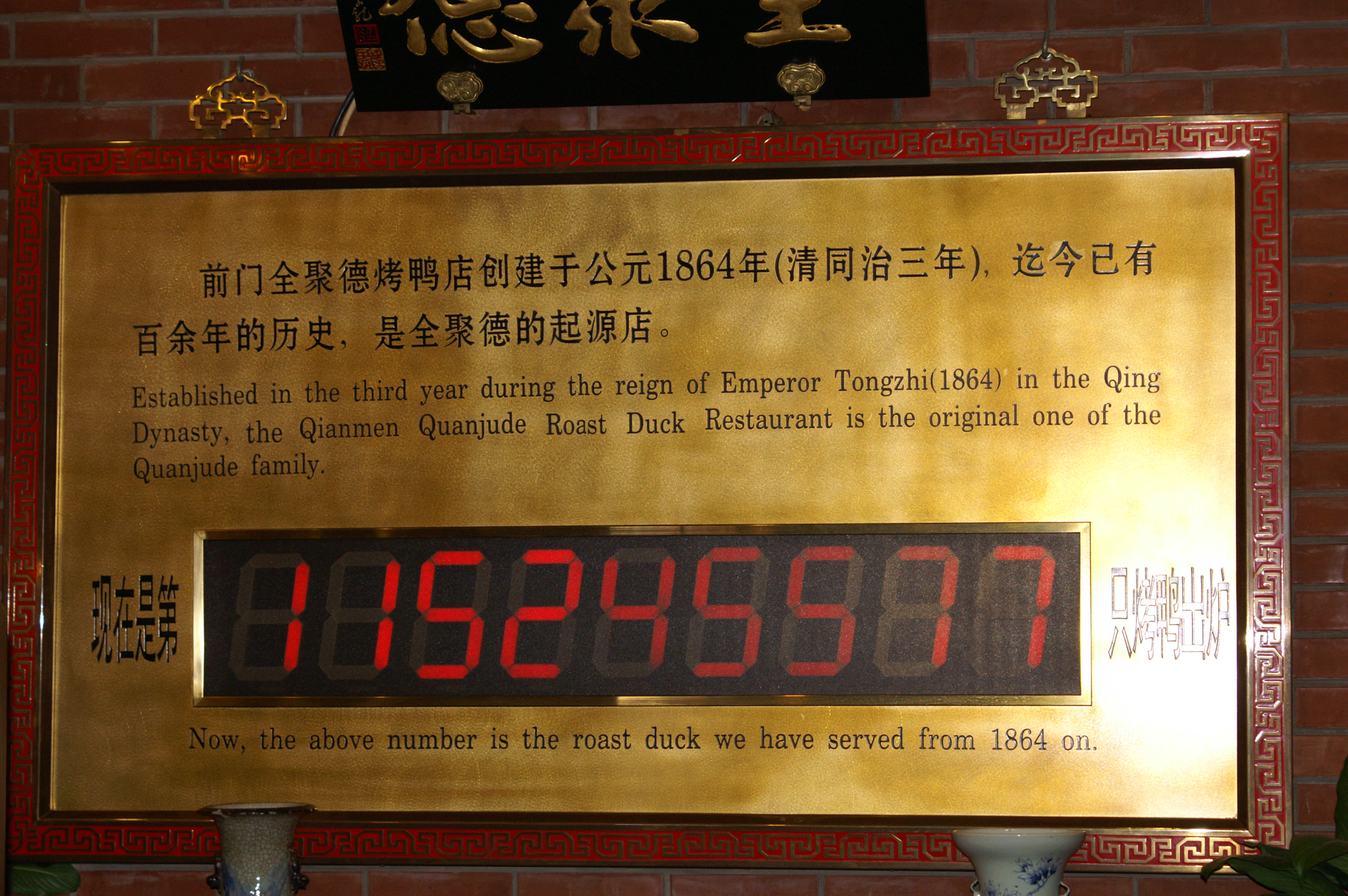 Peking Ducks cooked at the famous Qianmen Quanjude Roast Duck restaurant in Beijing.